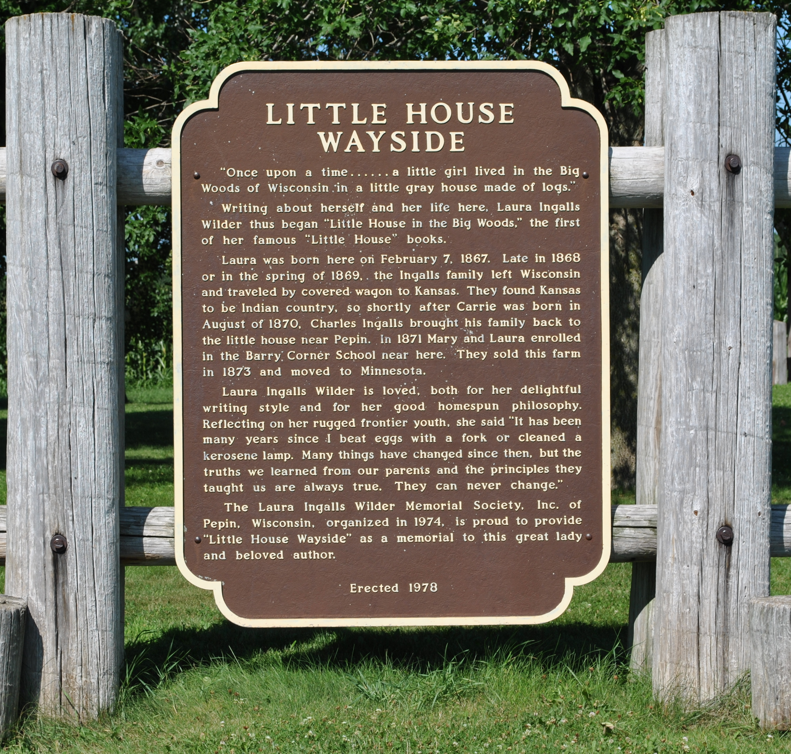 Sign at the Little House Wayside, Pepin Co., WI